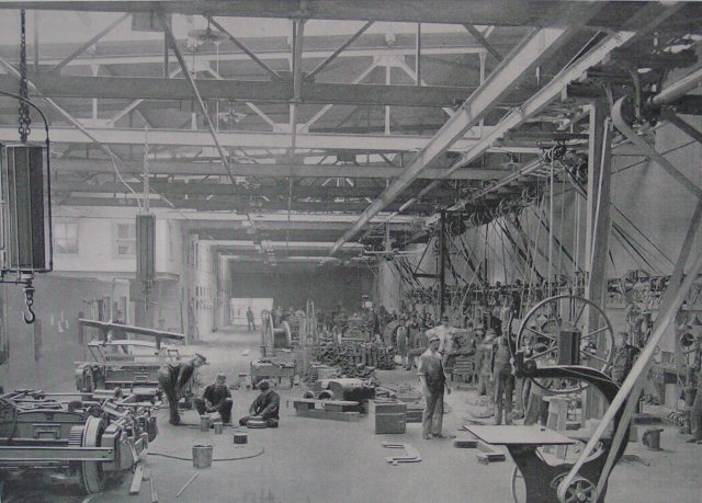 Interior view of Lenox Yard, New York City Subway, in 1904. This yard served as the main repair and overhaul facility of the Interborough Rapid Transit Company subway system and later the IRT Division. It was located between 148th and 149th Street in Harlem. There was a shed consisting of three adjacent bays among several layup tracks. Today this site is occupied by the "Harlem–148th Street" terminal of the "3" service.